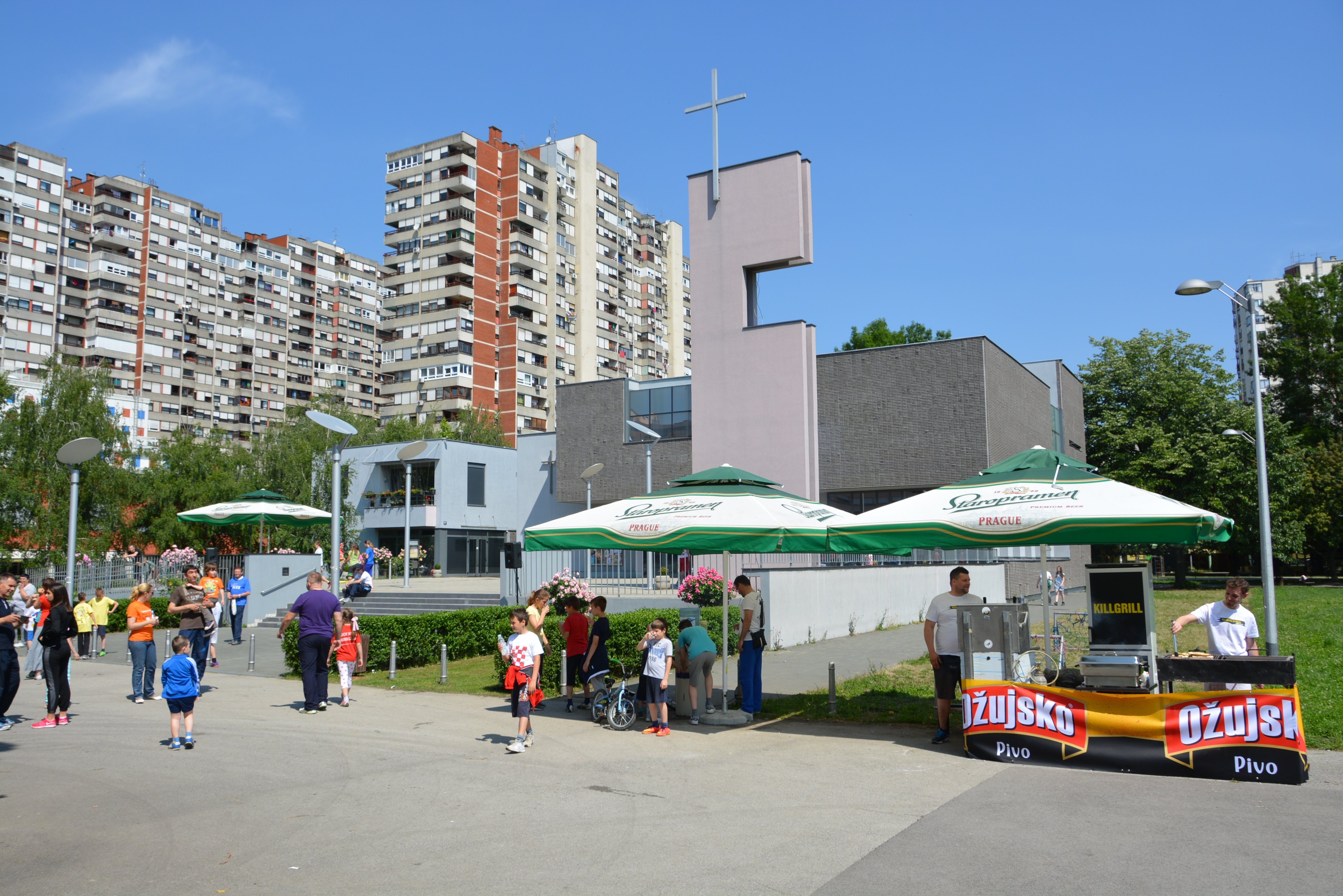 Travno Run 2015, Zagreb.